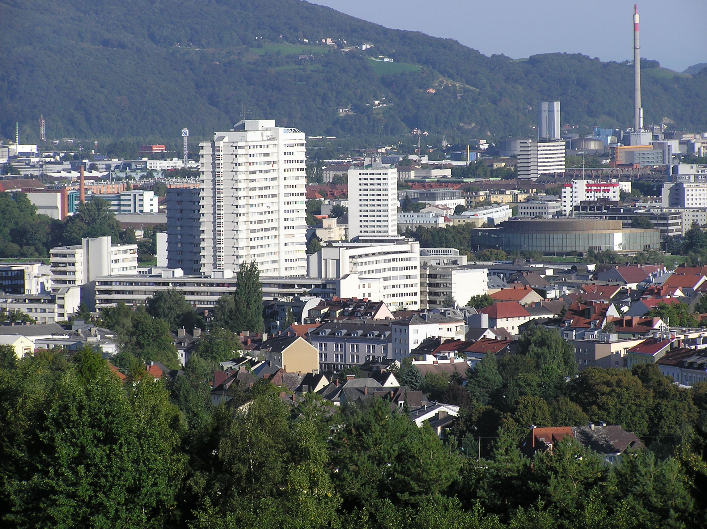 Lentia 2000, view from the Pösmayersteig. Picture taken by myself, 2006-09-23